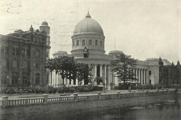 The Black Hole is situated in the G.P.O. Building.